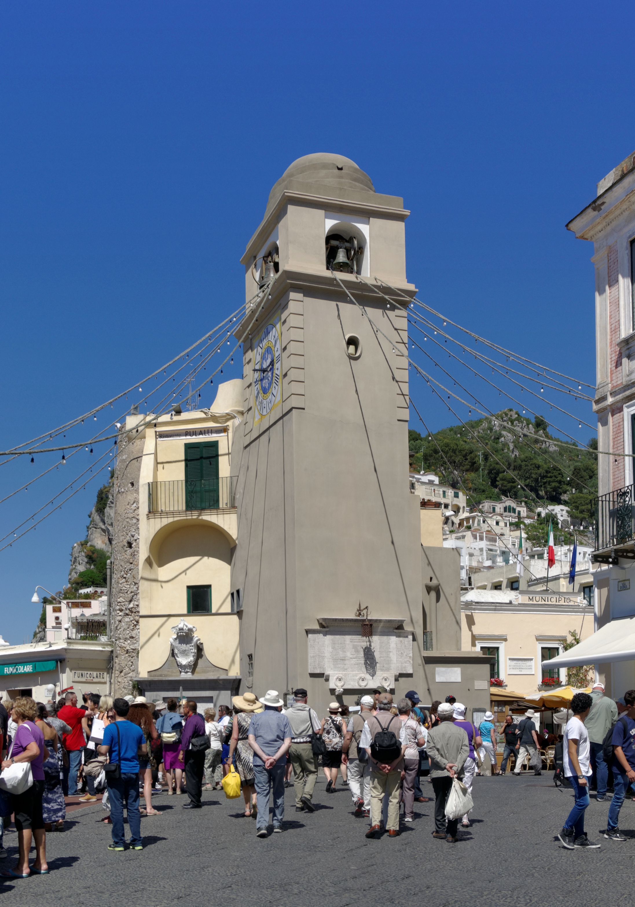 Capri, Piazetta